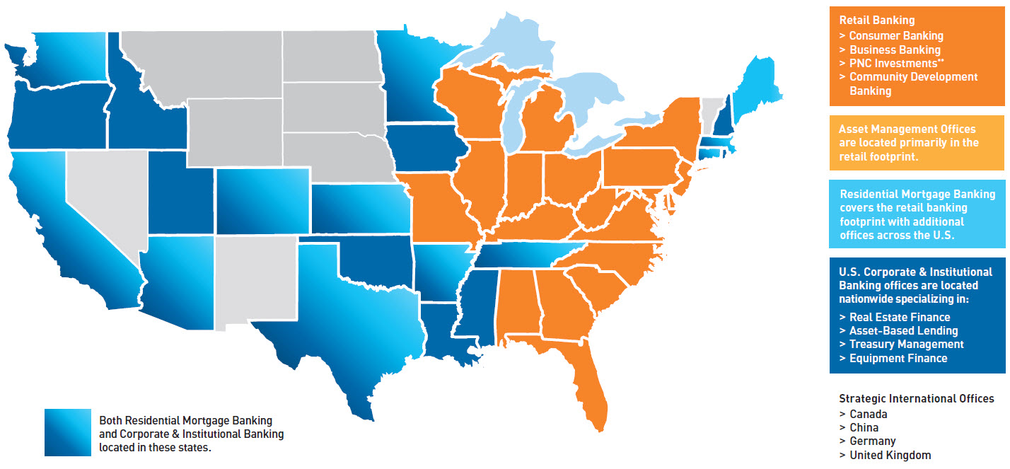 PNC Bank Corporate footprint as of 2016.